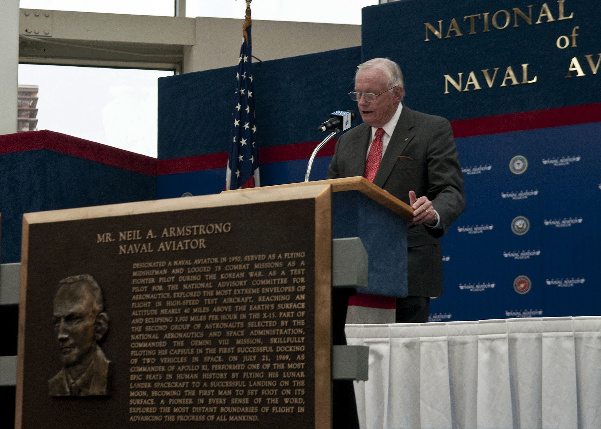 PENSACOLA, Fla. (May 14, 2010) Former astronaut Neil Armstrong gives an acceptance speech after being inducted into the Naval Aviation Hall of Honor at the National Naval Aviation Museum in Pensacola, Fla. The Naval Aviation Hall of Honor was founded in 1979 to recognize individuals who have made extraordinary contributions to Naval Aviation. Armstrong was inducted with retired Vice Adm. William P. Lawrence, retired Marine Corps Lt. Gen. Thomas H. Miller and retired Navy Capt. Richard P. Bordone. (U.S. Navy photo by Mass Communication Specialist 1st Class Rebekah Adler/Released)